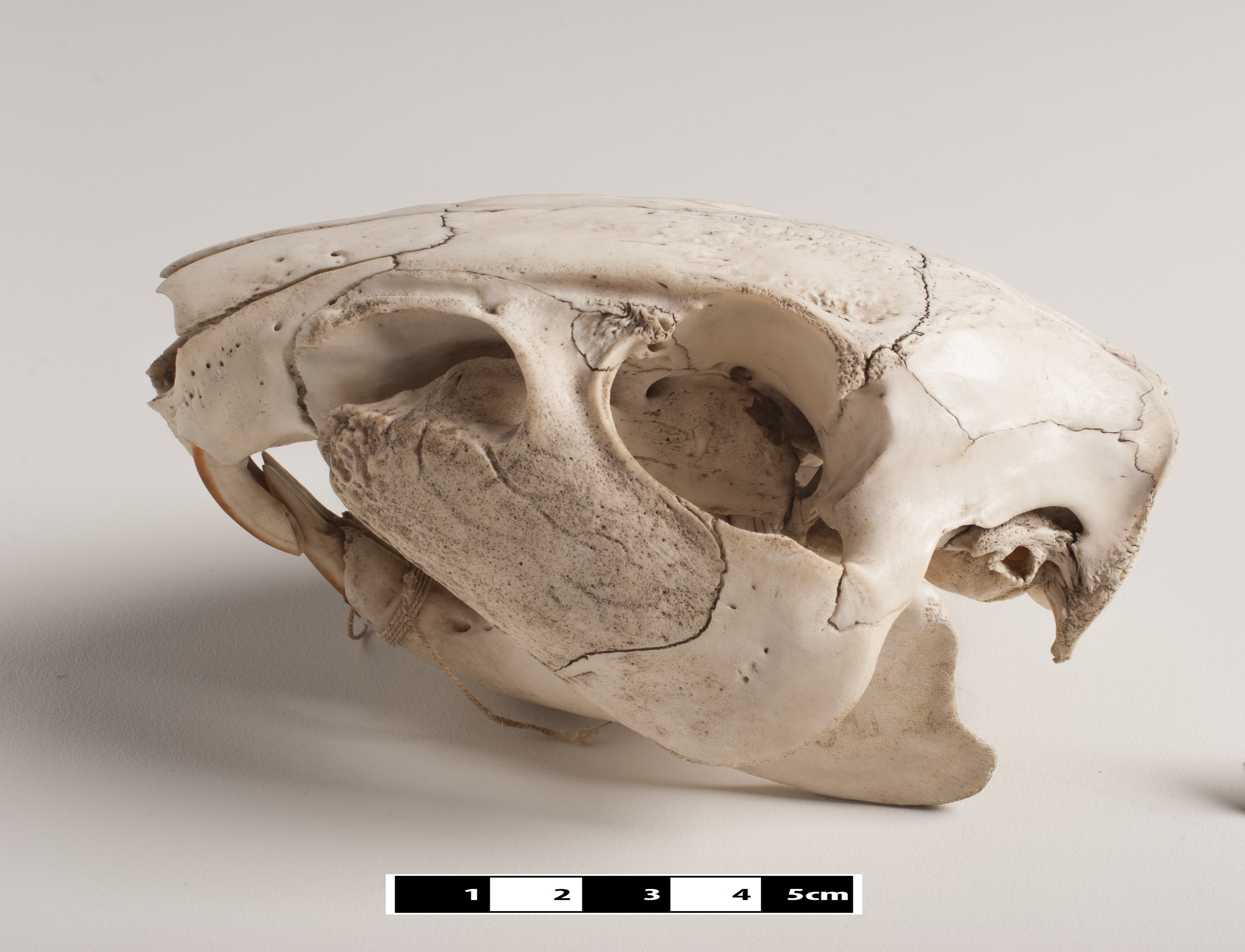 Specimen of a paca skull prepared by the bone maceration technique and on display at the Museum of Veterinary Anatomy, FMVZ USP.This file was published as the result of a partnership between the Museum of Veterinary Anatomy FMVZ USP, the RIDC NeuroMat and the Wikimedia Community User Group Brasil. This GLAM project is reported.Photography: Museum of Veterinary Anatomy FMVZ USPAuthor: Wagner Souza e Silva